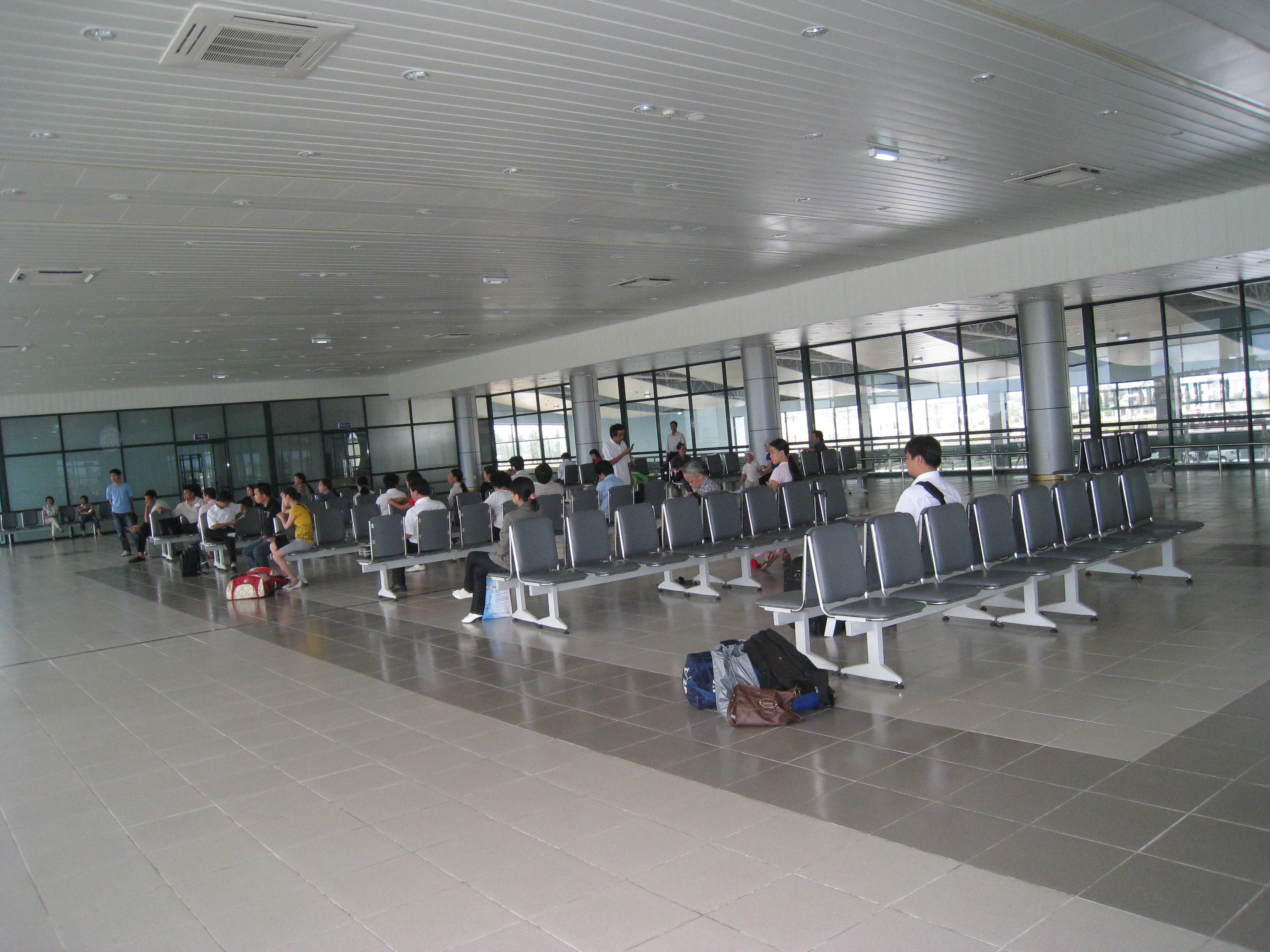 Dong Hoi Airport, Vietnam